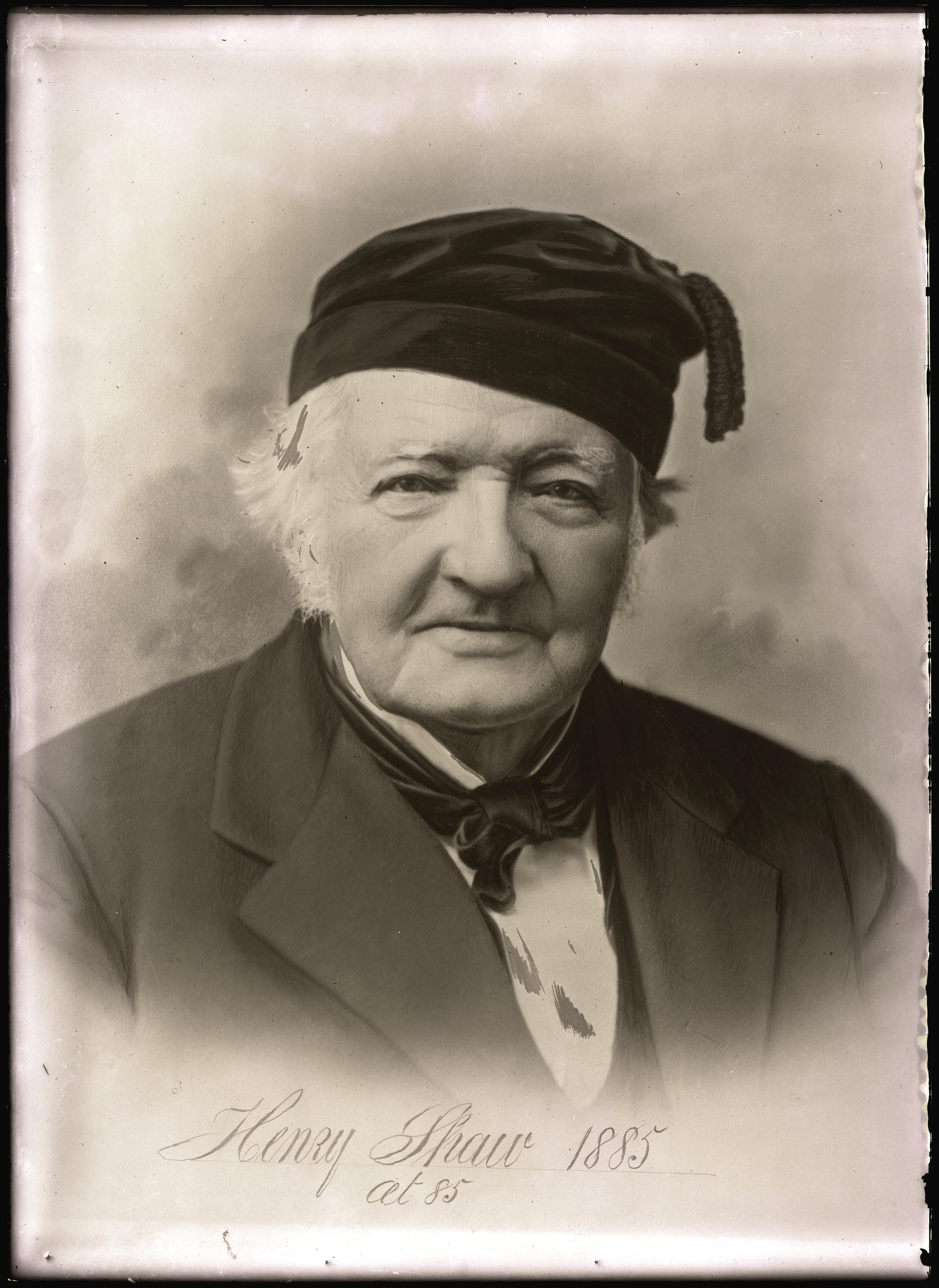 Henry Shaw (1800-1889) - portrait in nightcap. 'Henry Shaw, 1885 at 85.'